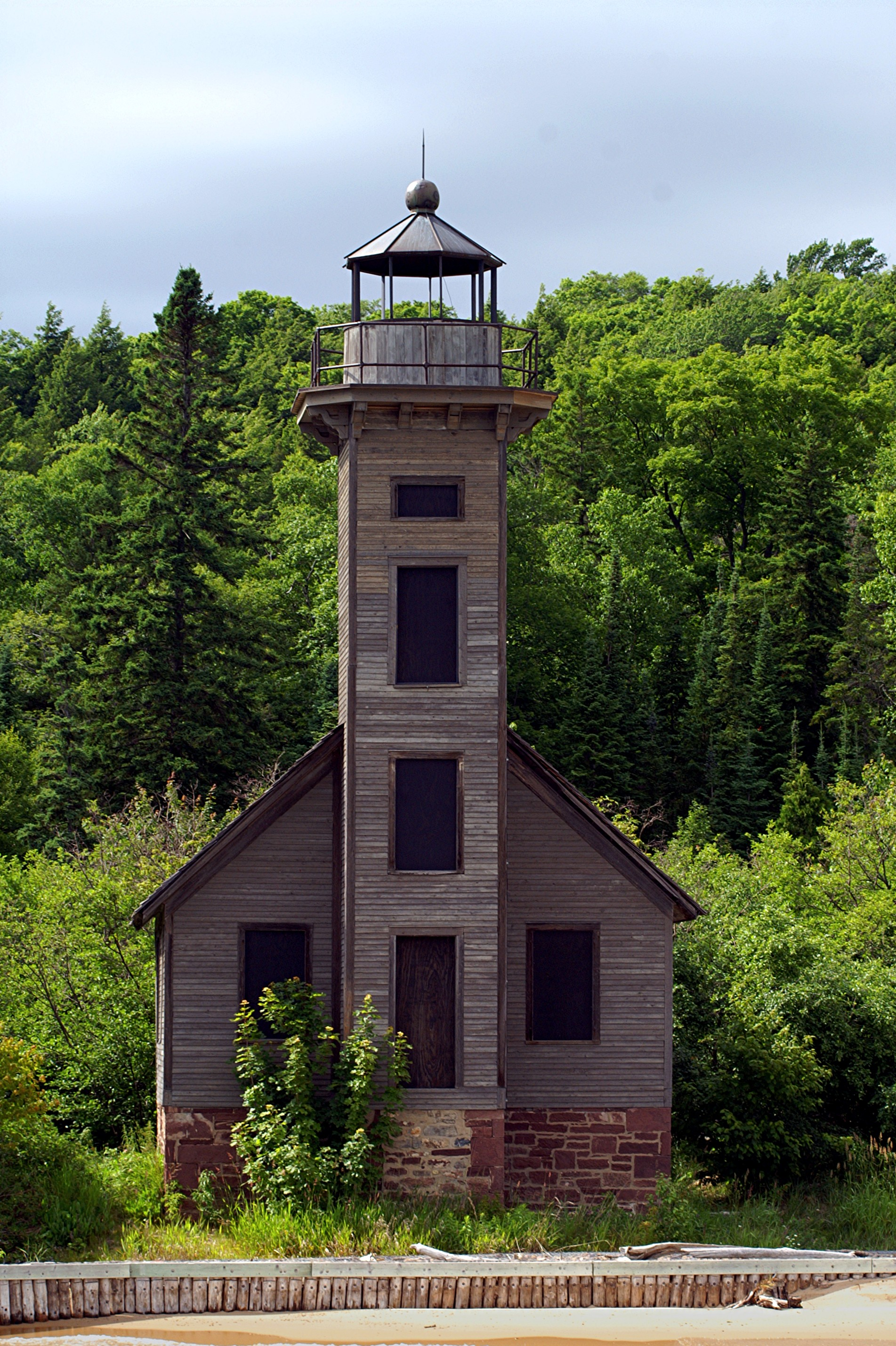 Wooden lighthouse located just north of Munising, Michigan on Grand Island which formerly led boats from Lake Superior through the channel east of Grand Island into the Munising Harbor.